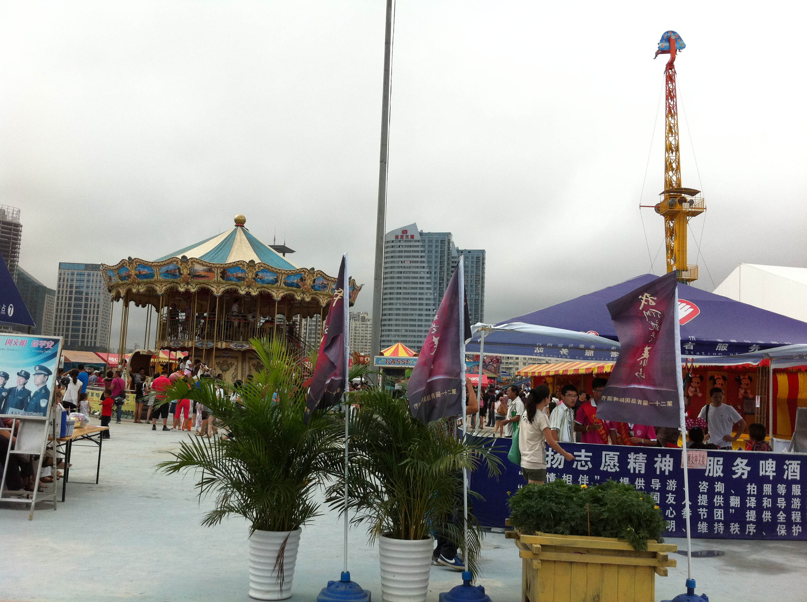 A photo taken inside the Qingdao International Beer City.